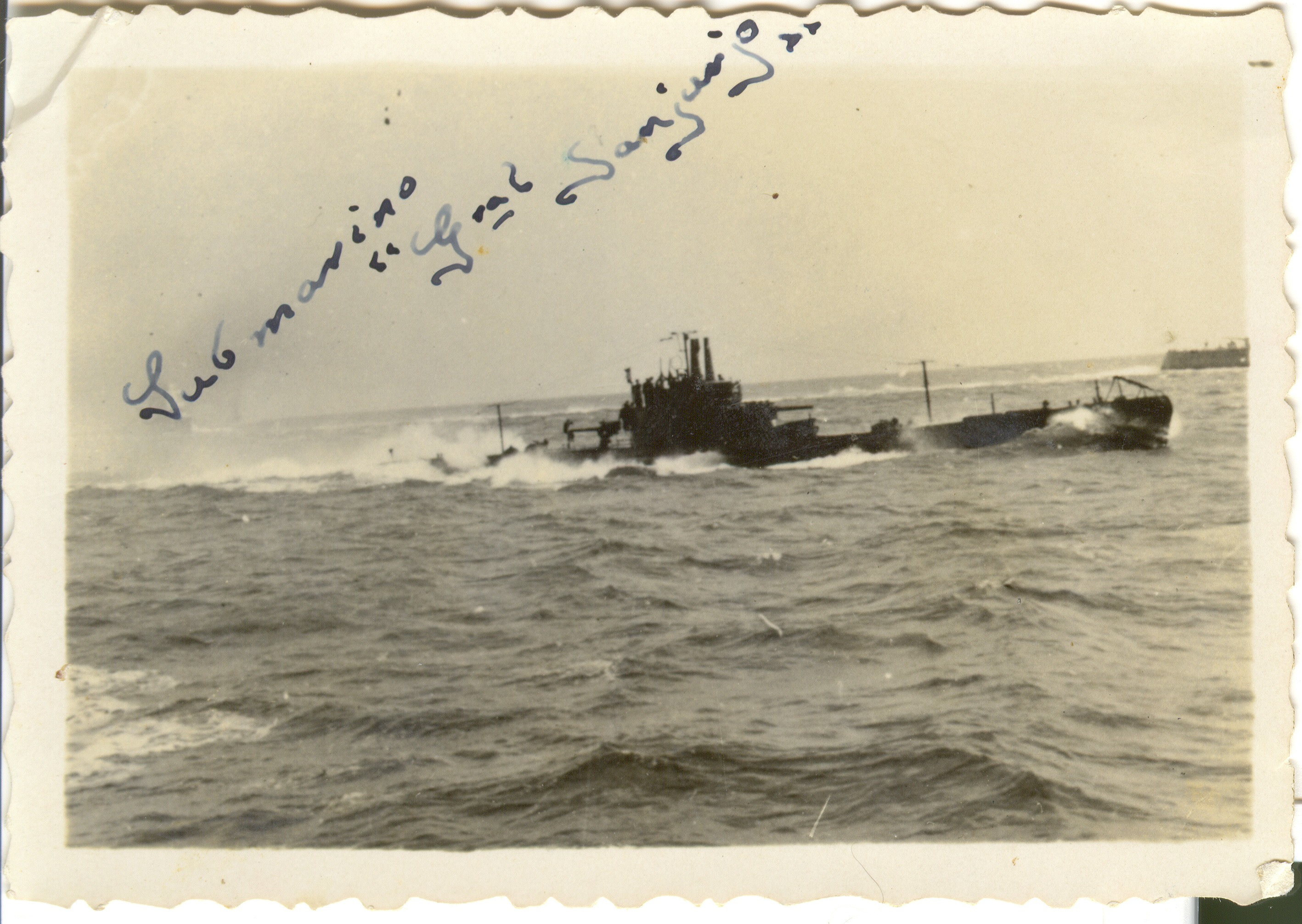 Spanish submarine General Sanjurjo (Ex italian Torricelli)